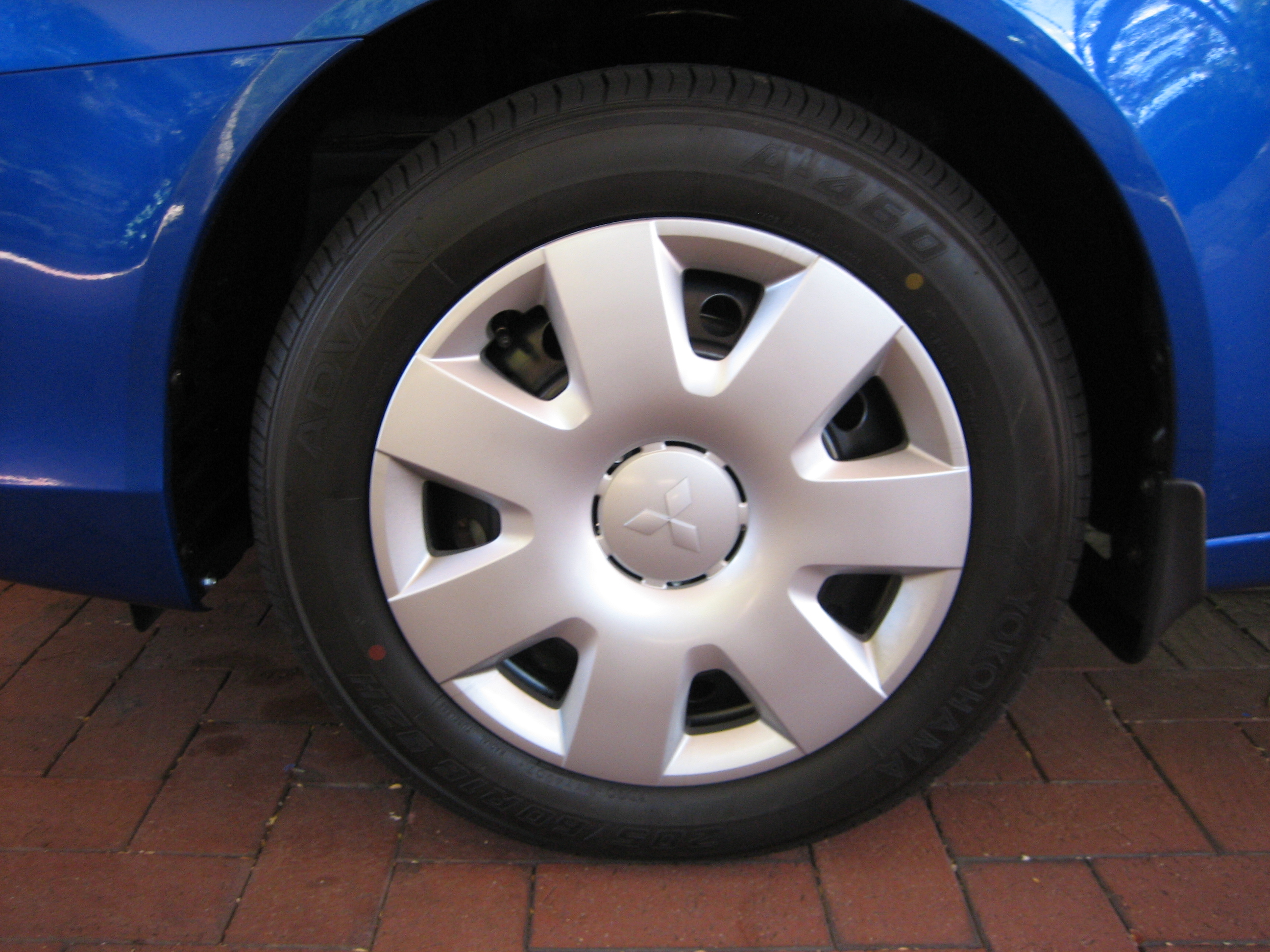 A standard hubcap on a 2008 Mitsubishi Lancer ES